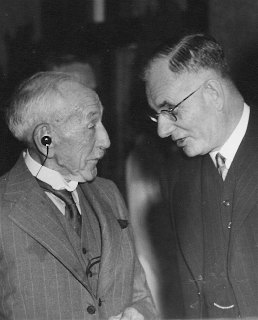 Prime Minister John Curtin with former prime minister Billy Hughes in 1945. Hughes's hearing aid is prominently displayed.